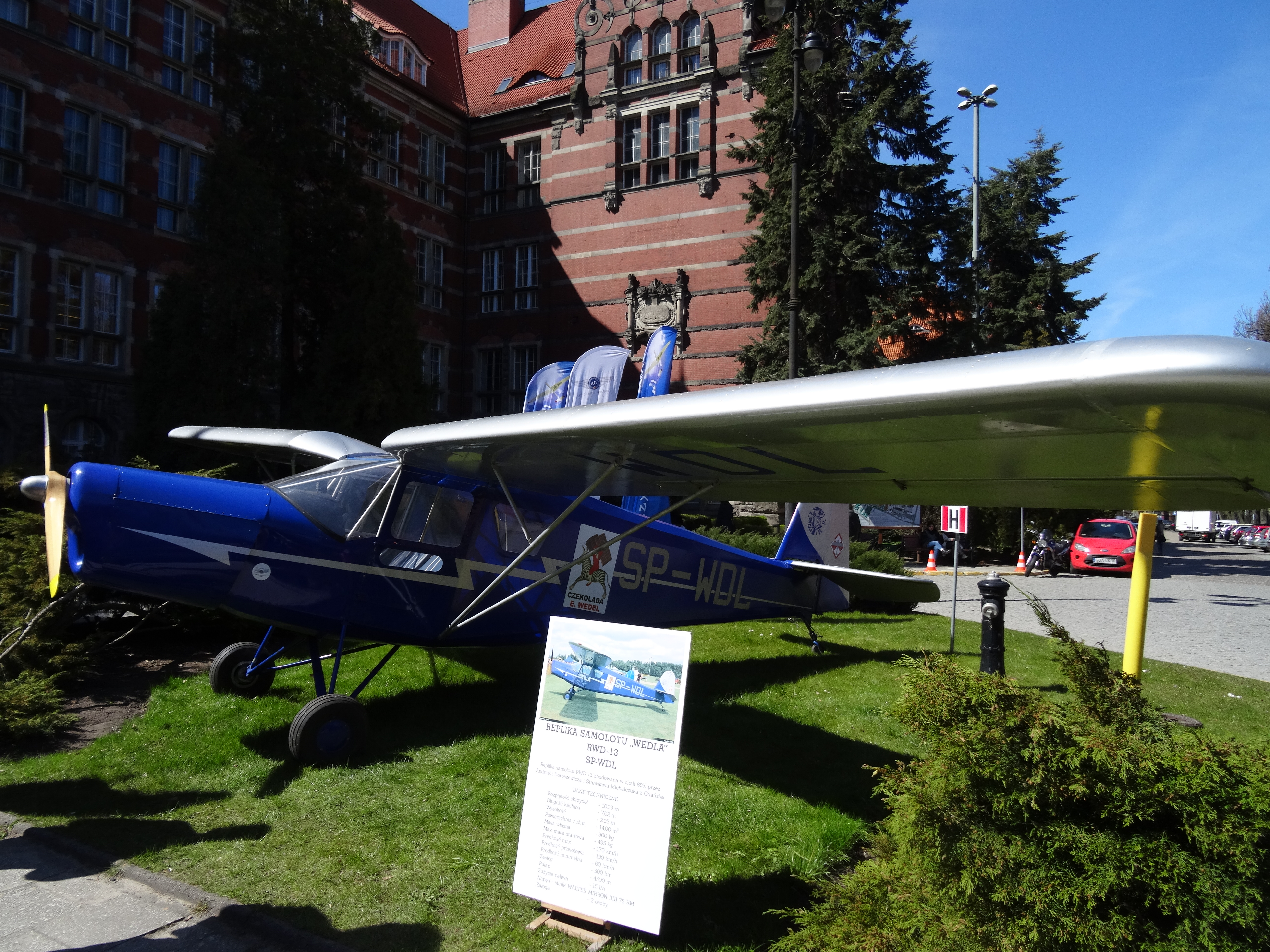 SP-WDL RWD 13 replica Wedel sweets carrying aeroplane before WWII, at Gdańsk Unversity of Technology, 2015